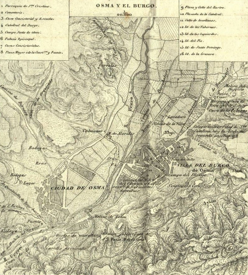 Map of El Burgo de Osma-Ciudad de Osma cropped from the 1860 province of Soria map by Francisco Coello